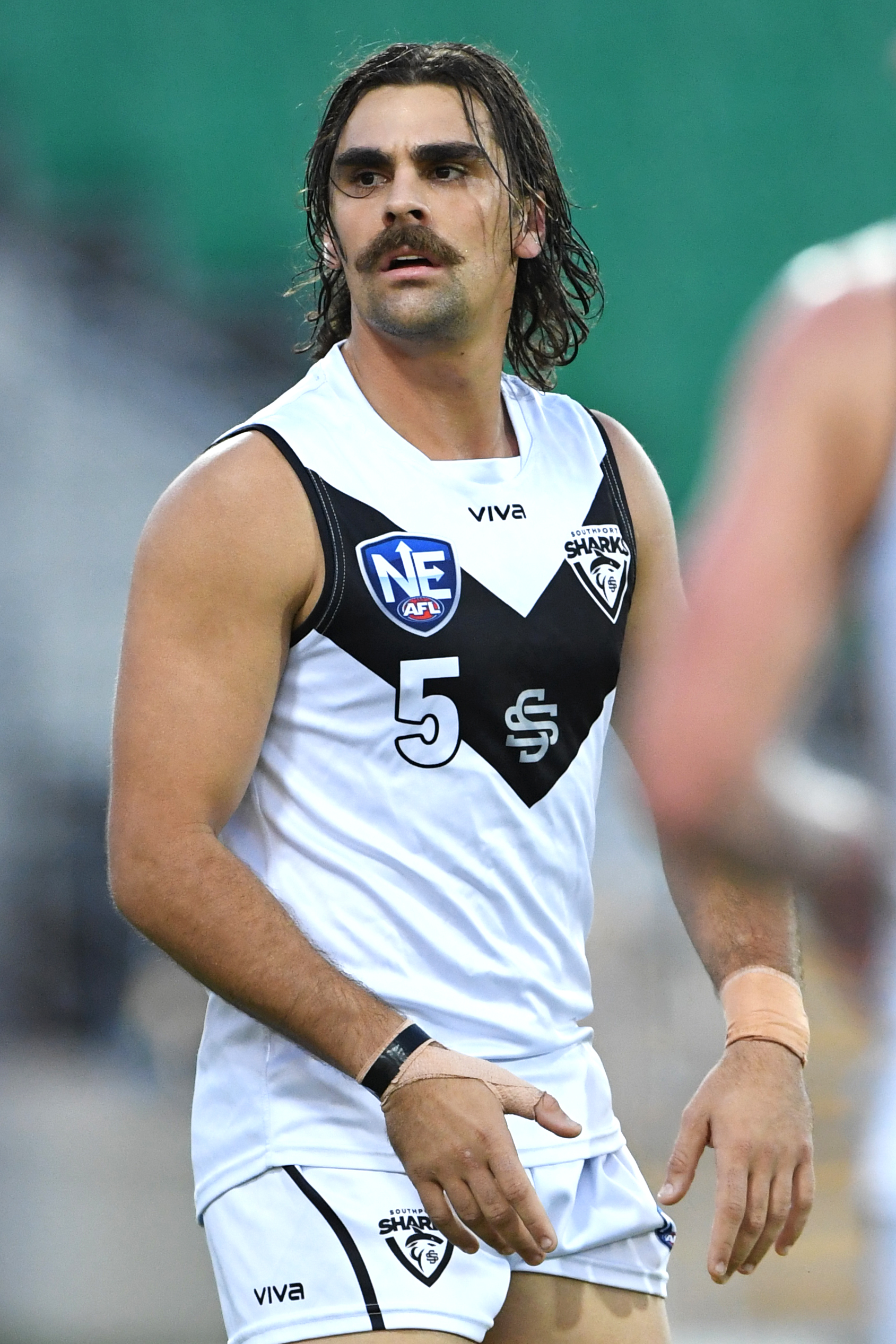 Andrew Boston of Southport during the 2018 NEAFL round 20 match between NT Thunder and Southport at TIO Stadium on 18 August 2018 in Darwin, Northern Territory.